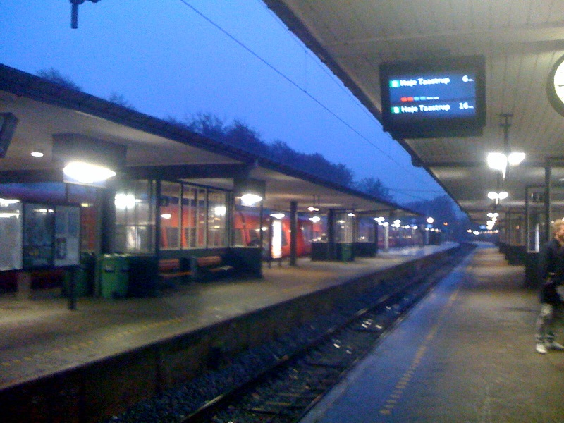 Holte station. Picture taken from platform 2.